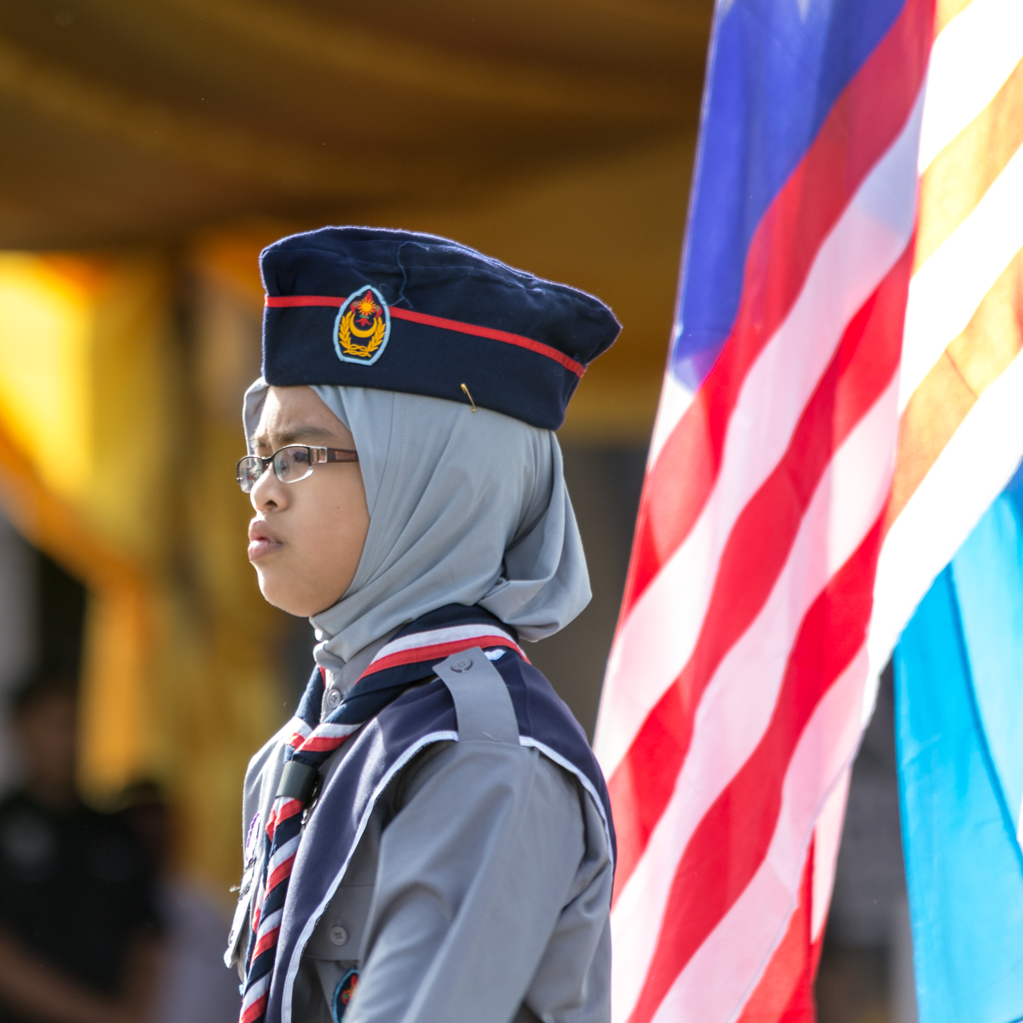 Kota Kinabalu, Sabah, Malaysia: Parade during Celebrations of Hari Merdeka 2013 in Likas on August 31, 2013